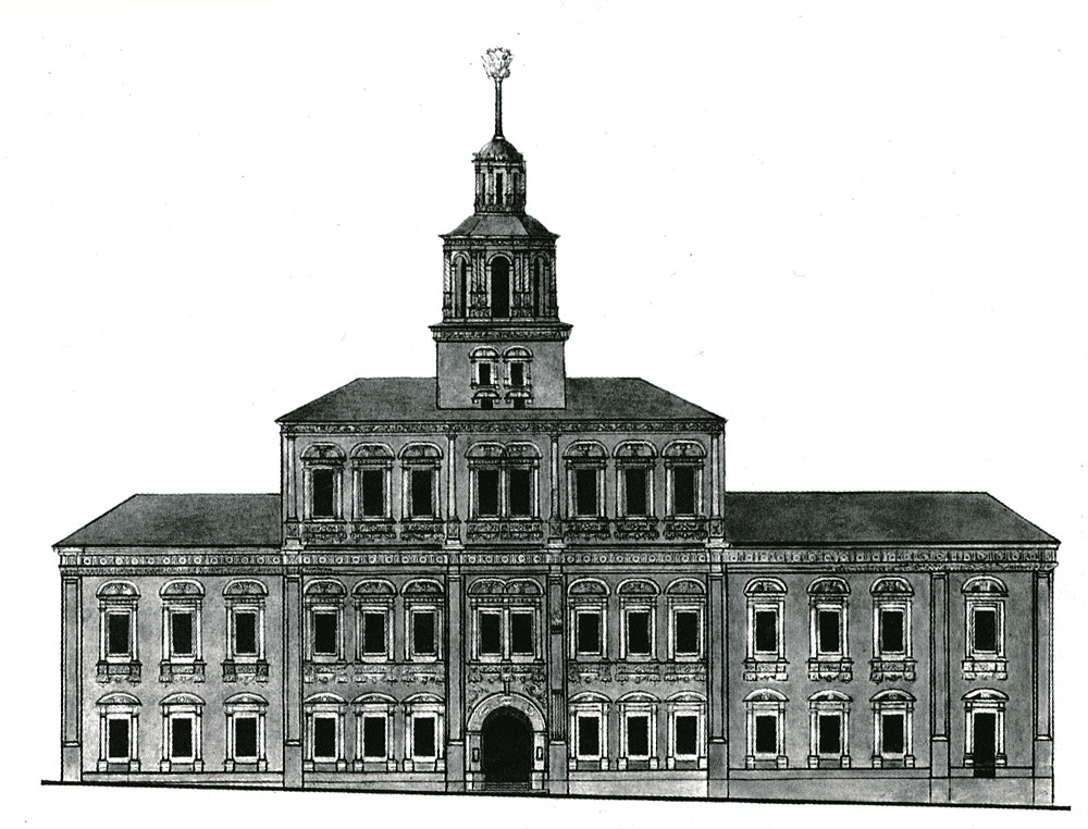 Old Town hall near Voskresensky Gates in Red Square (1700). A 1816 drawing by Joseph Bove, who supervised rebuilding of Red Square after the fire of 1812.(Building destroyed in 1874)